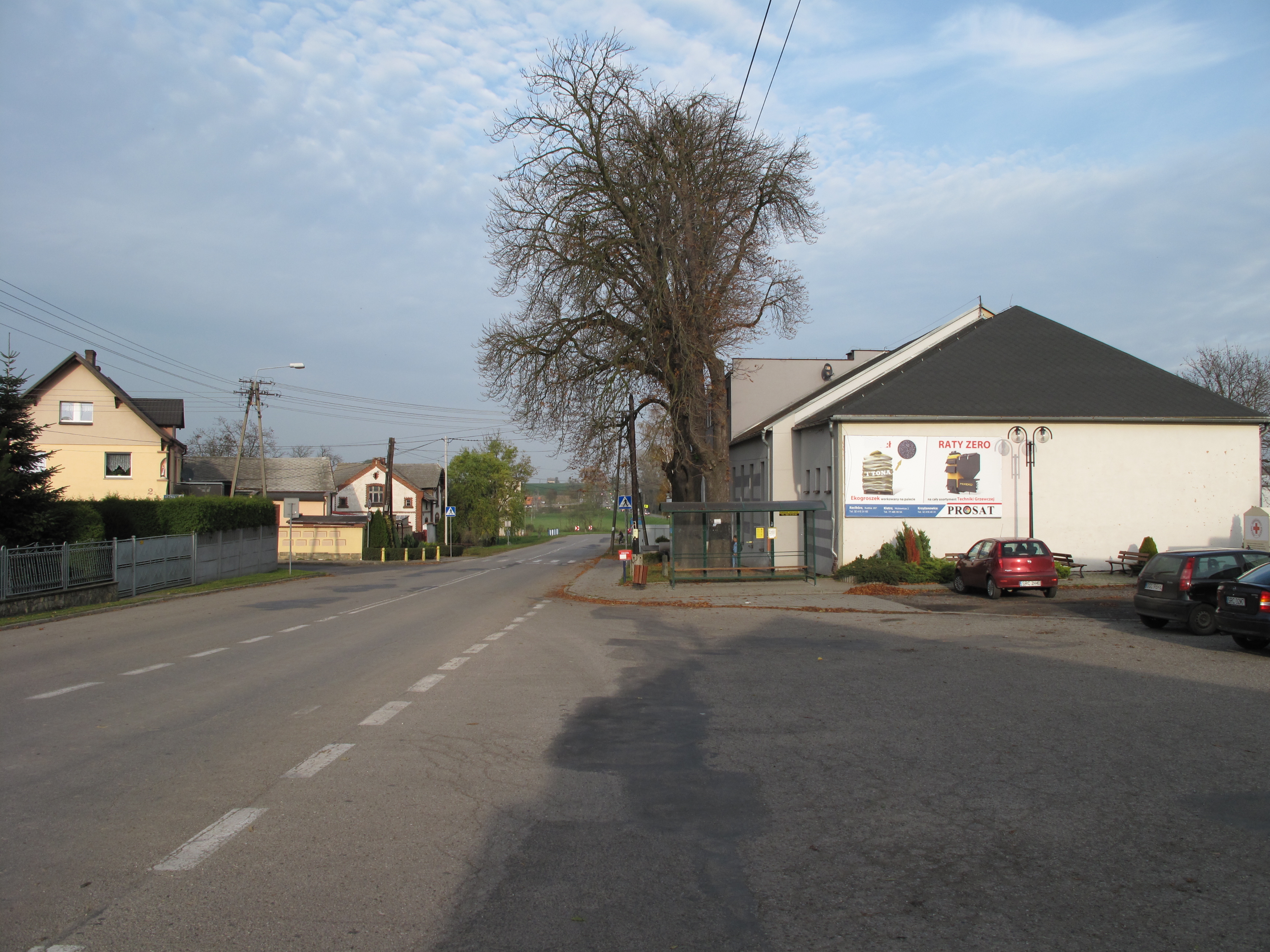 Samborowice (województwo śląskie). Racibórz County, Poland.